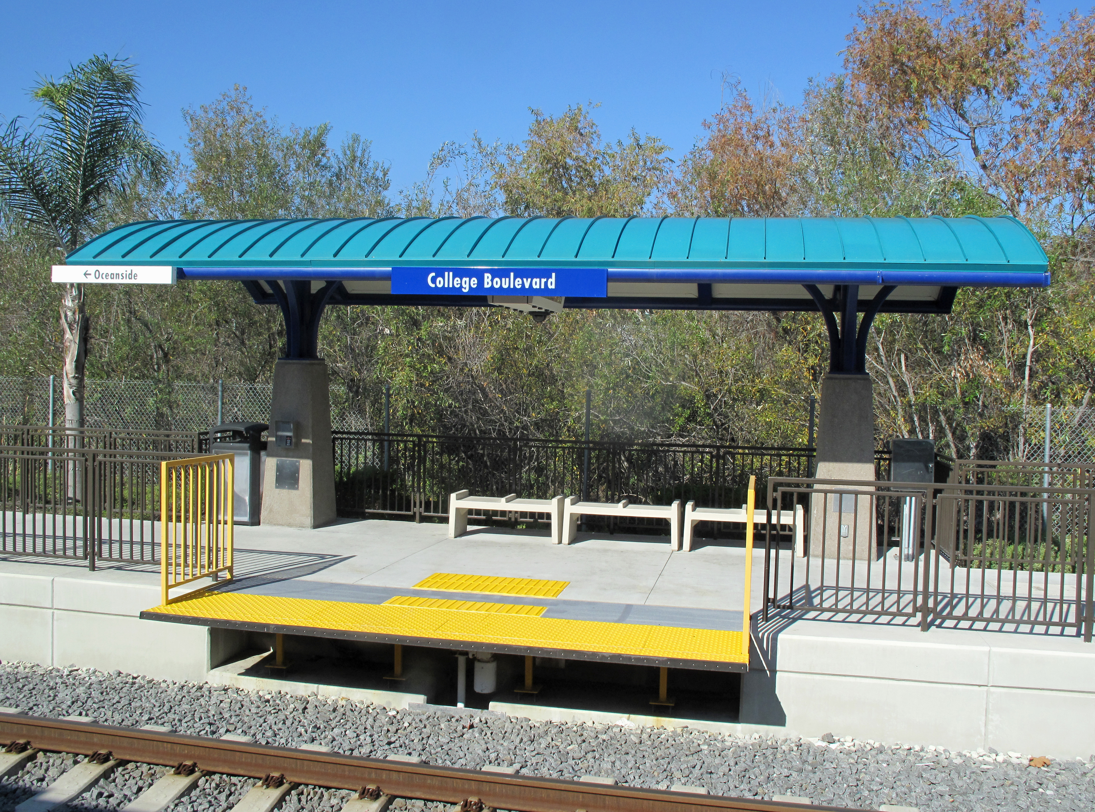 College Boulevard station on Sprinter line, North County Transit District, San Diego County, California